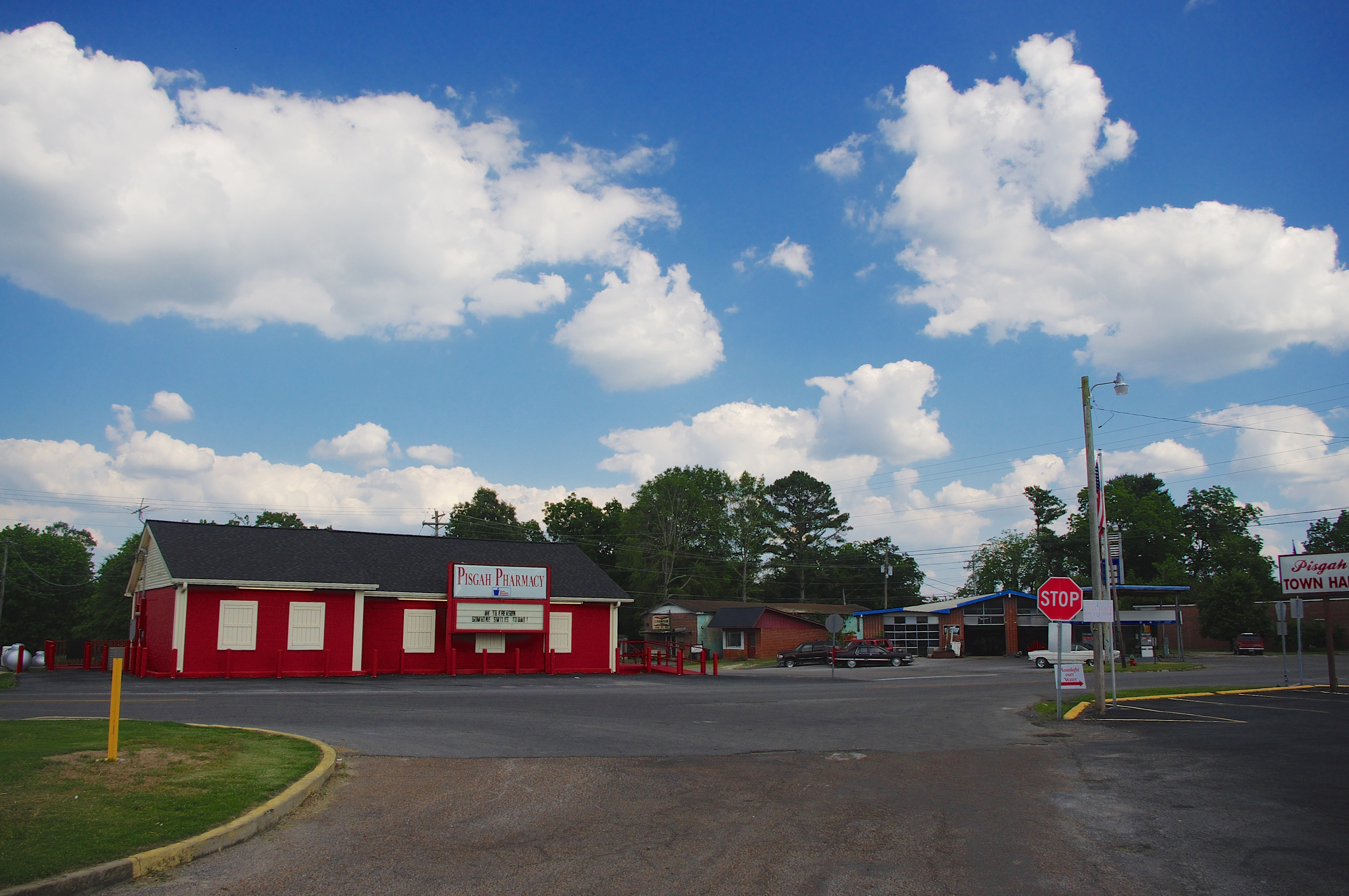 Pisgah Pharmacy and other businesses in Pisgah, Alabama, United States.